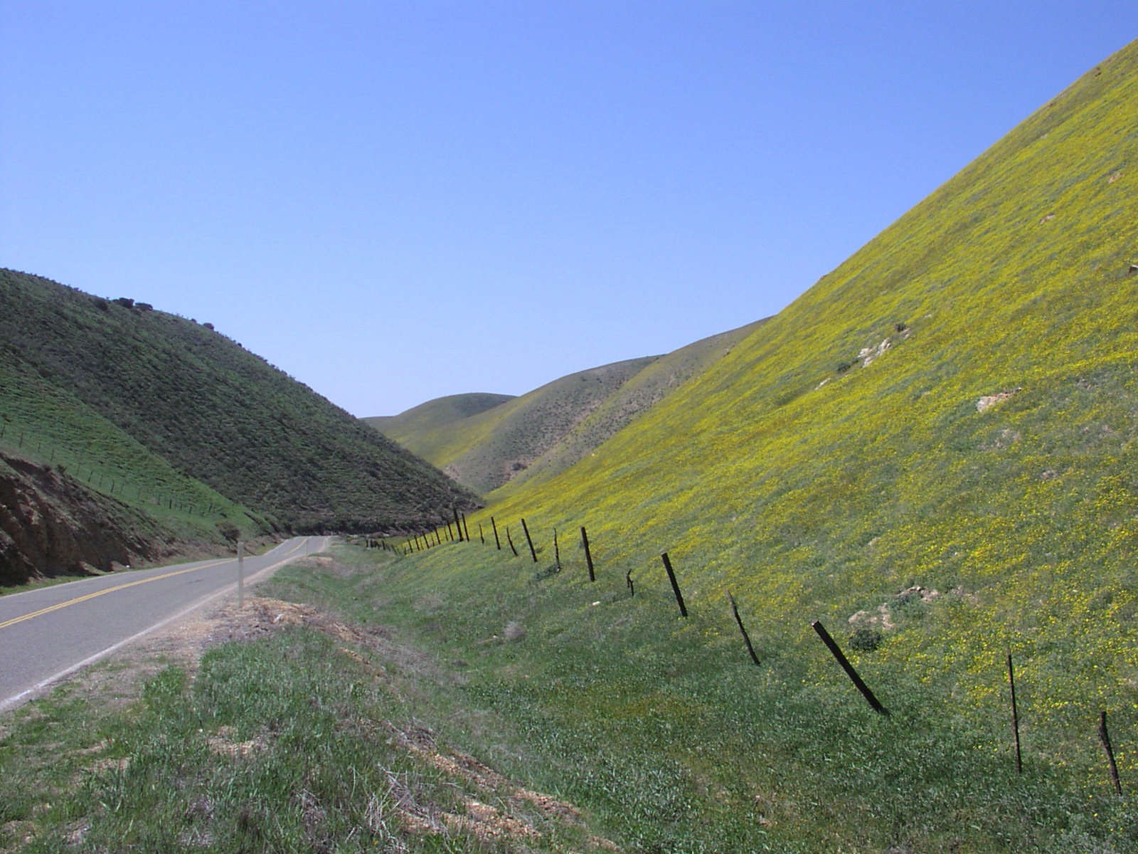 Temblor Mountains along Highway 58, springtime.